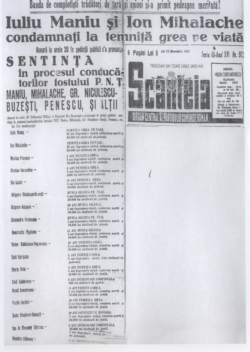 The sentence after the trial of the Romanian PNŢ party leaders trial, published at November 13, 1947, in Scanteia newspaper